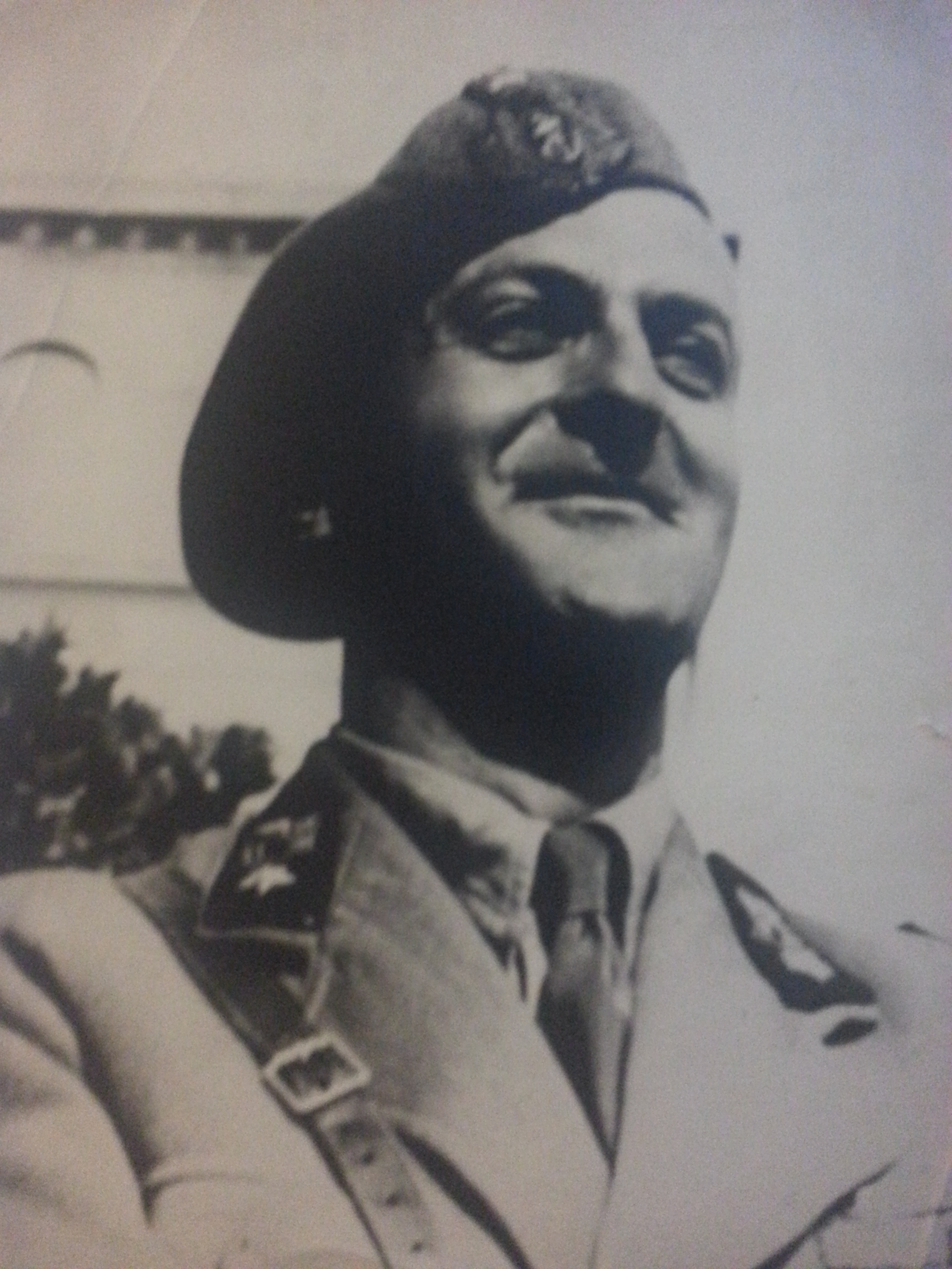 Ten. Enzo Busca Battaglione San Marco 1943